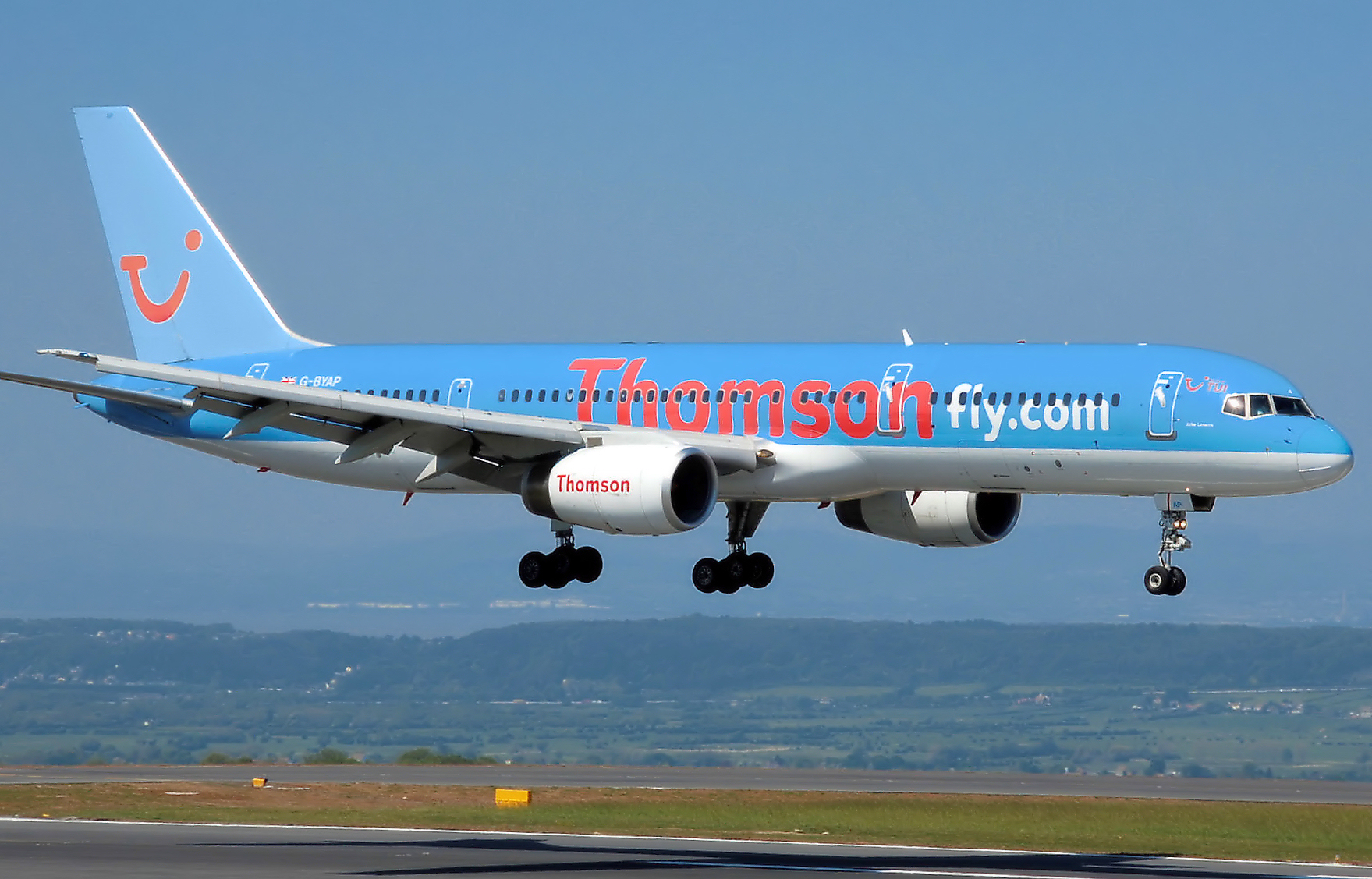 Thomsonfly Boeing 757-200 (G-BYAP) lands at Bristol International Airport, Bristol, England.